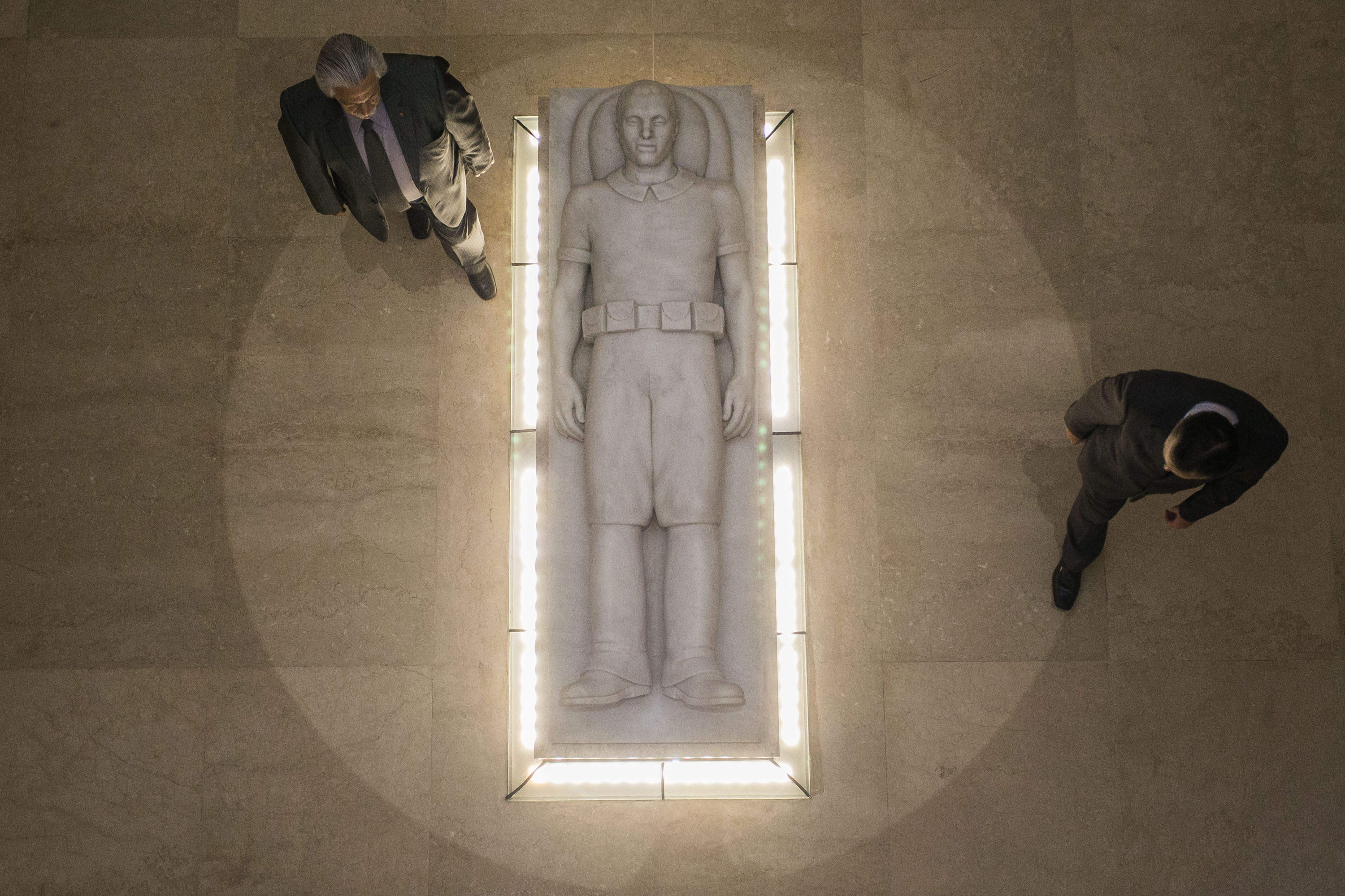 O governador Geraldo Alckmin durante entrega do Obelisco - Mausoléu ao Soldado Constitucionalista de 1932 -, localizado no Ibirapuera, zona sul de São Paulo, após processo de restauração e modernização. Data: 09/12/2014. Local: São Paulo/SP.Foto: Edson Lopes Jr/A2AD